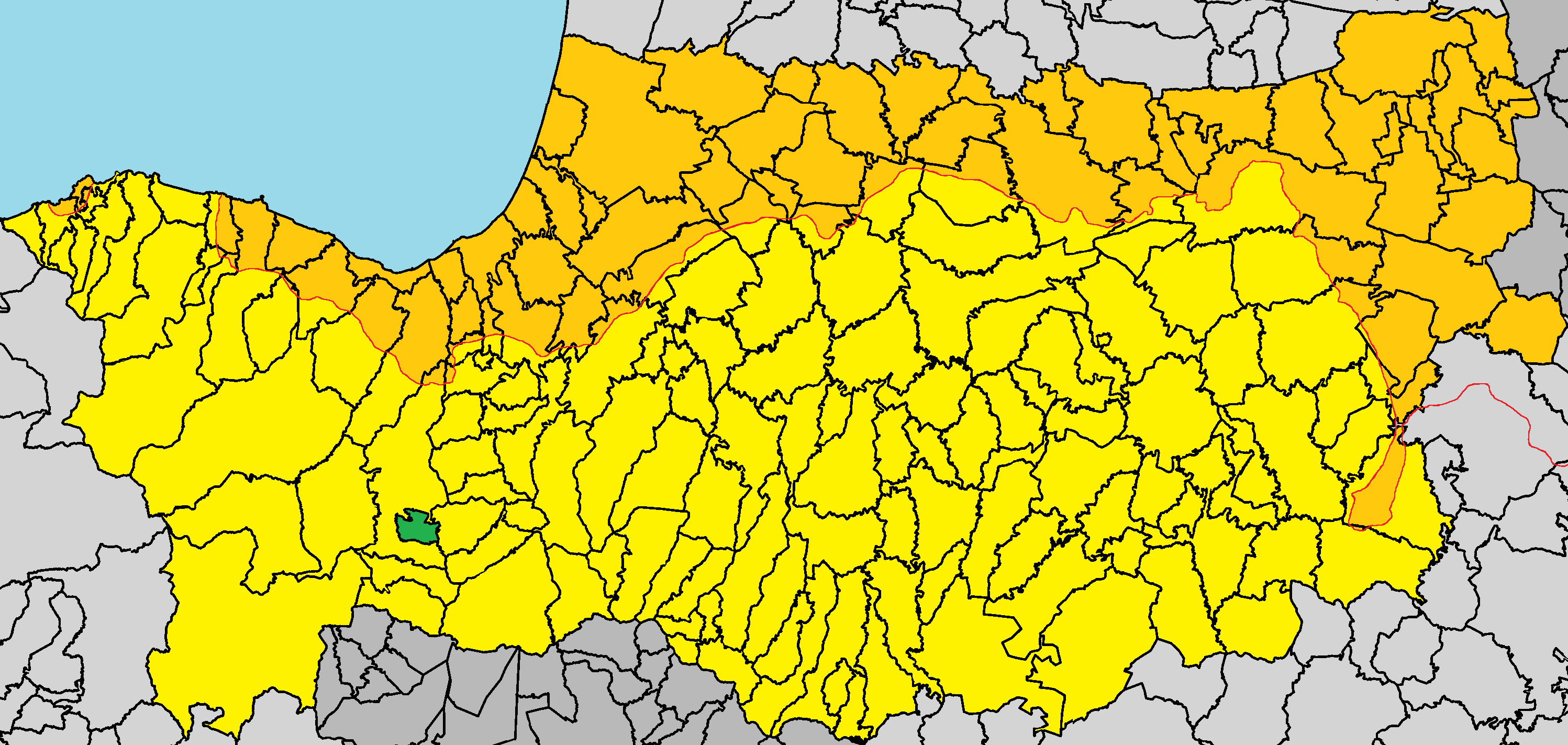 Oikos in Nicosia District.